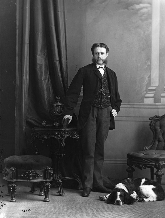 Picture of William George Beers, a noted Canadian dentist and patriot, who is referred to as the "father of modern lacrosse" for his work establishing the first set of playing rules for the game.